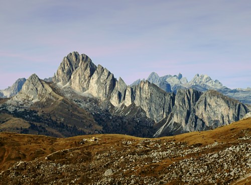 Settsass seen from Passo Giau Picture taken and edited by user Idefix October 30, 2006